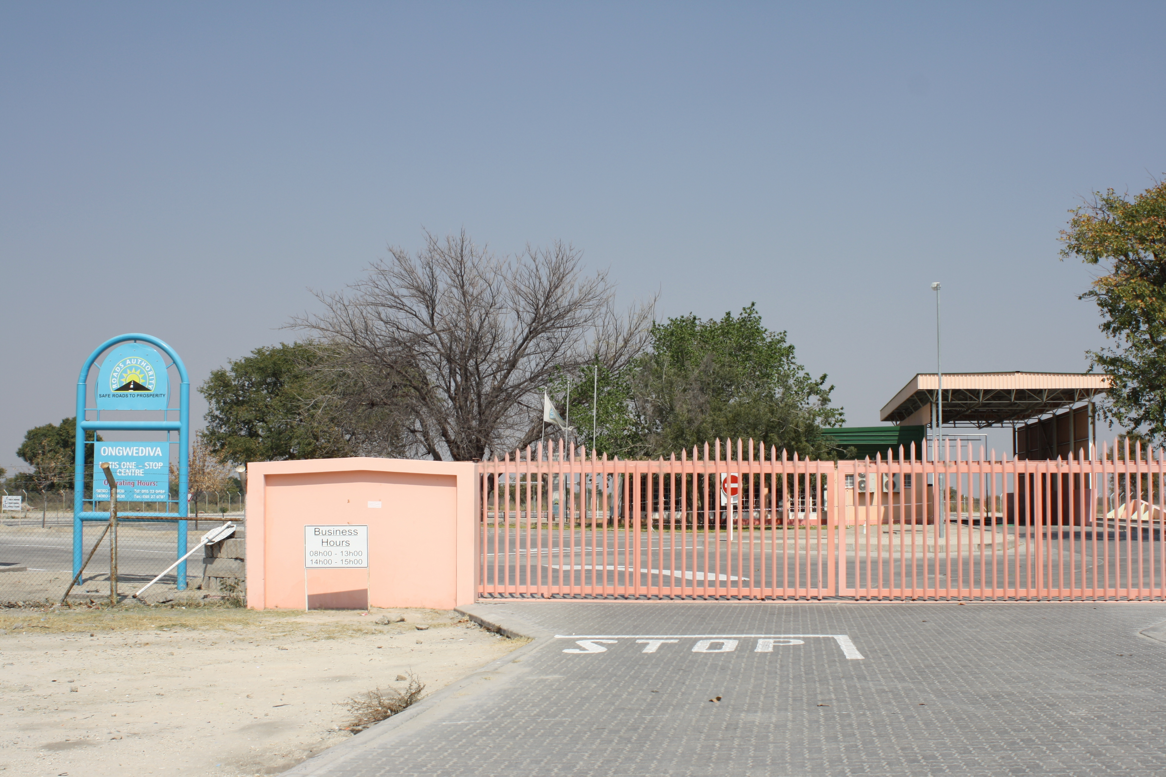 Natis premises in Ongwediva, Namibia